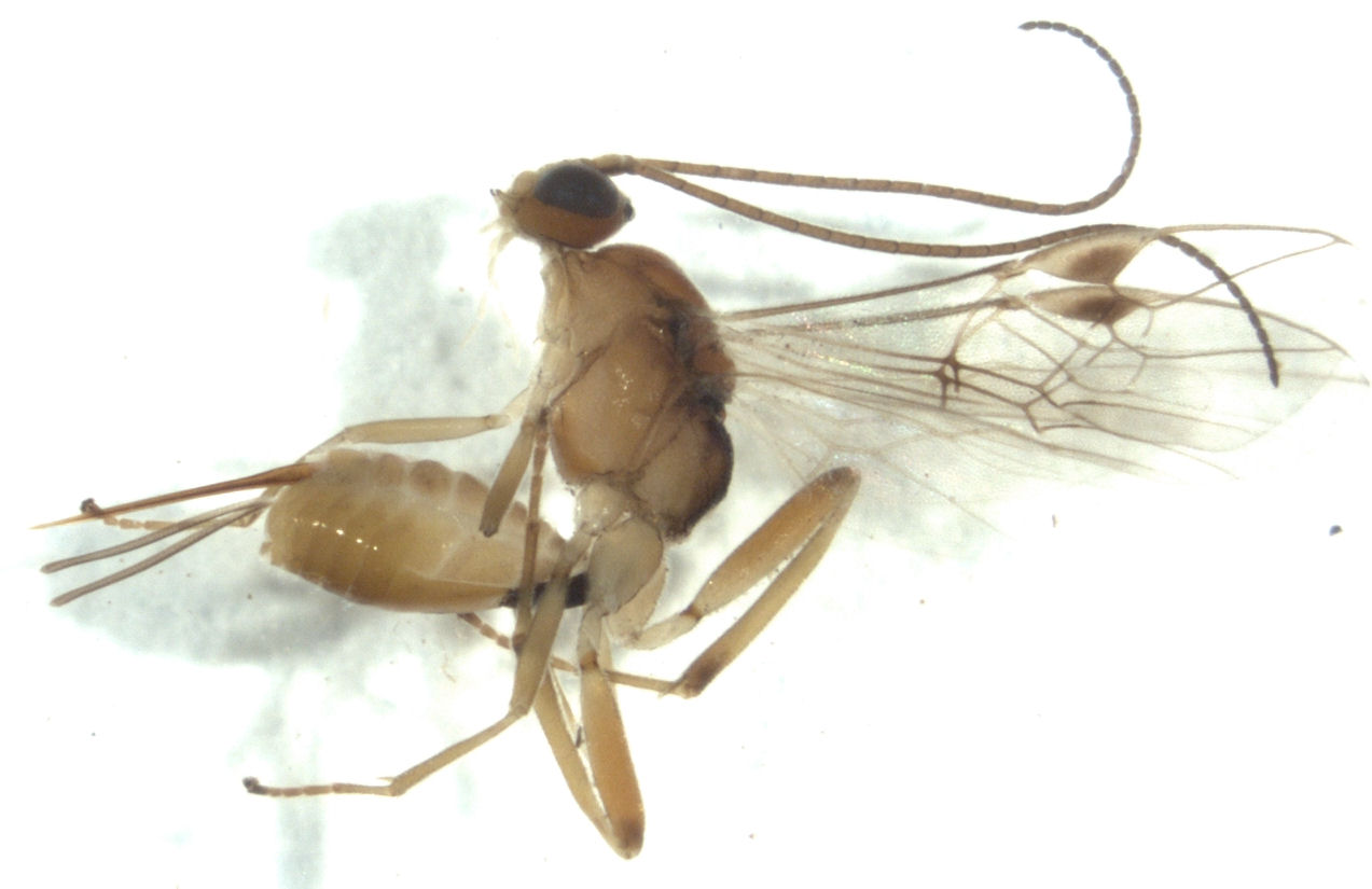 adult female Meteorus pulchricornis from New Zealand